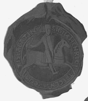 Henry II of Champagne